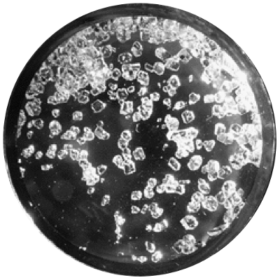 from en On Oct. 2, 1962, Argonne announced the creation of xenon tetrafluoride, the first simple compound of xenon, a noble gas widely thought to be chemically inert. The creation opened a new era for the study of chemical bonds.